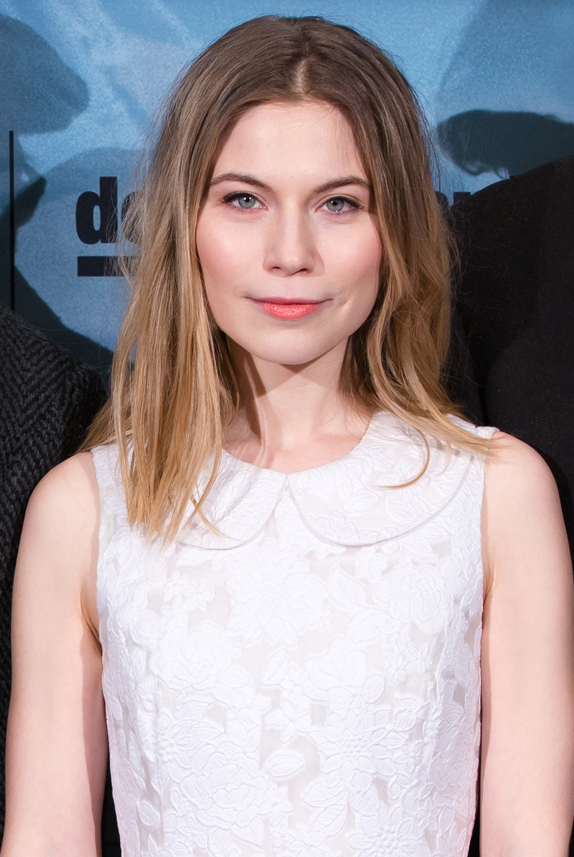 Premiere of the film Das ewige Leben at Gartenbaukino in Vienna, Austria: Nora von Waldstätten.